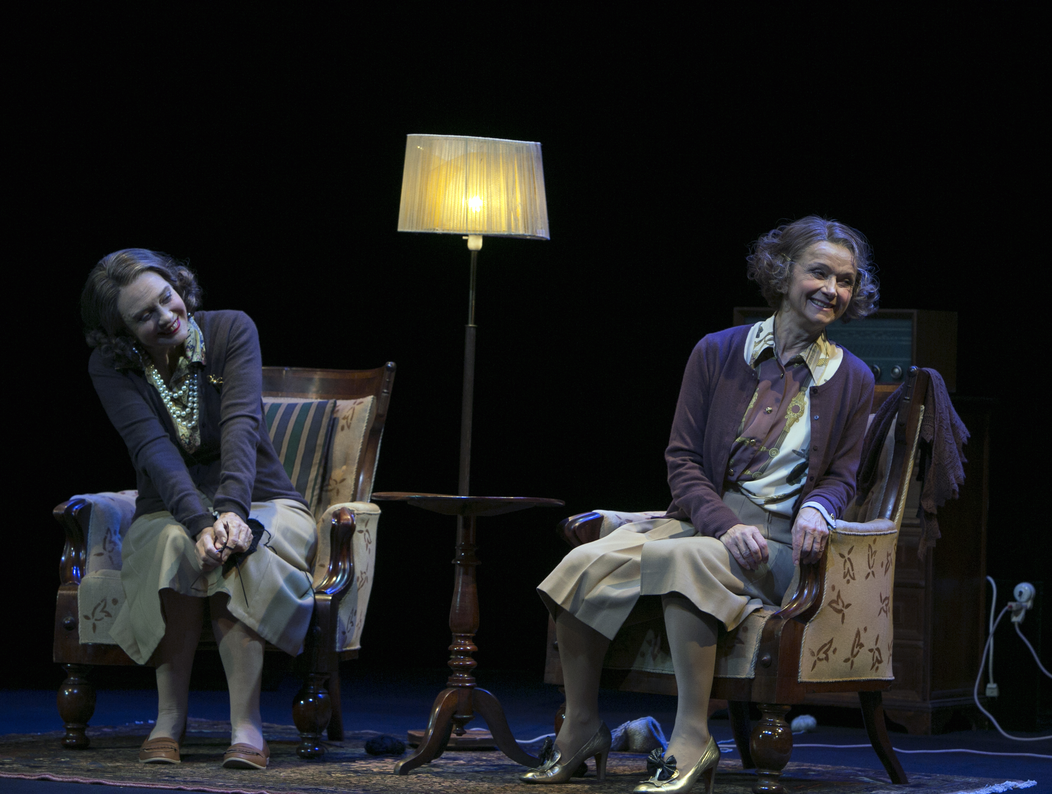 Malene Schwartz and Sonja Oppenhagen in the Copenhagen theater Folketeatret's production of the play "Skærmydsler" by Gustav Wied.